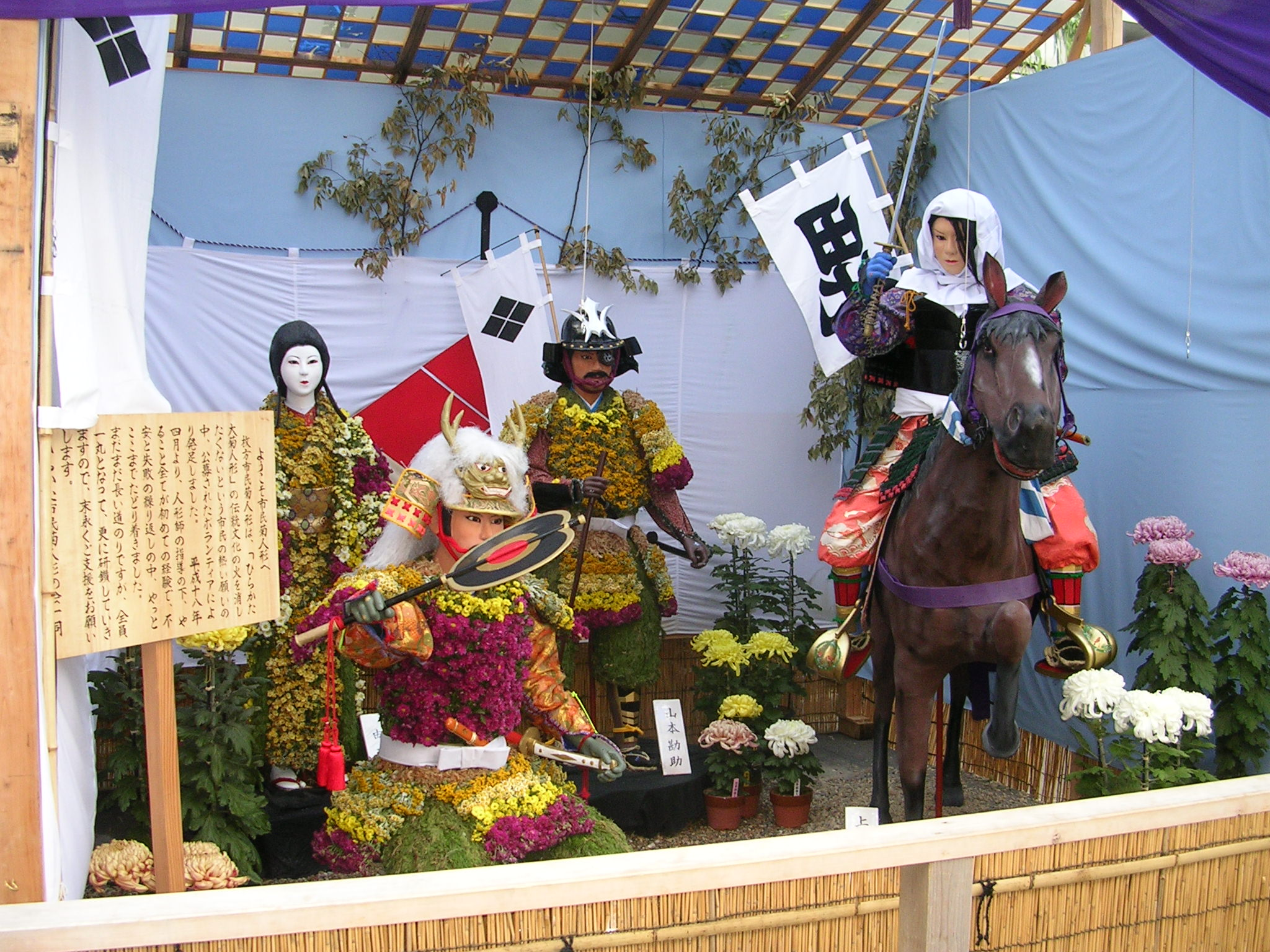 chrisanthemum dolls made by amateur volunteers ひらかた大菊人形